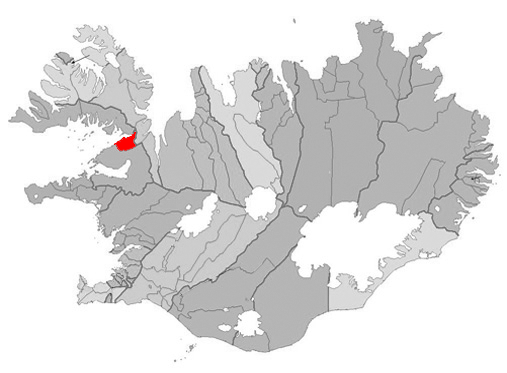 Based on Municipalities of Iceland.png.